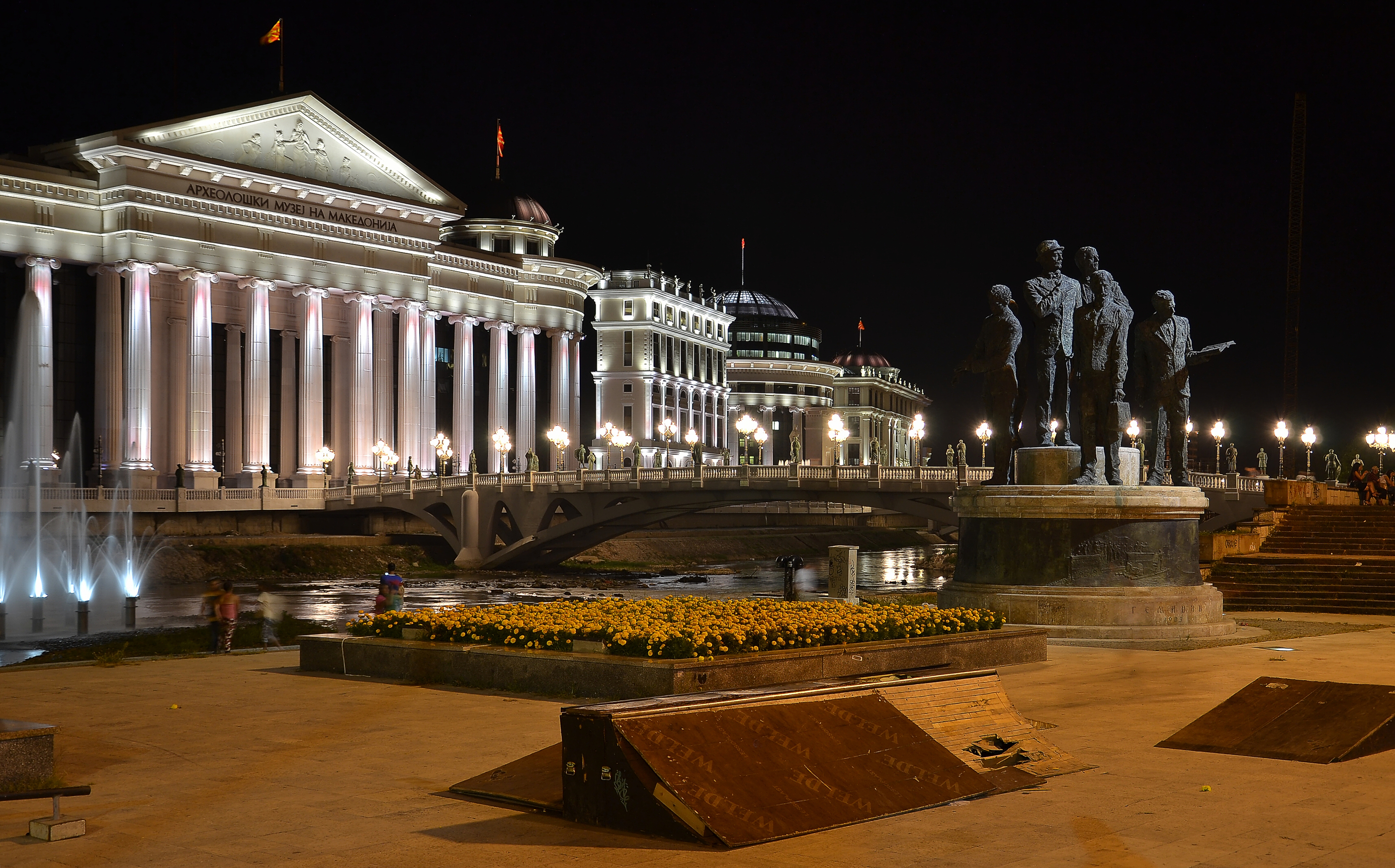 Skopje, Macedonia - Archeological Museum of Macedonia by night